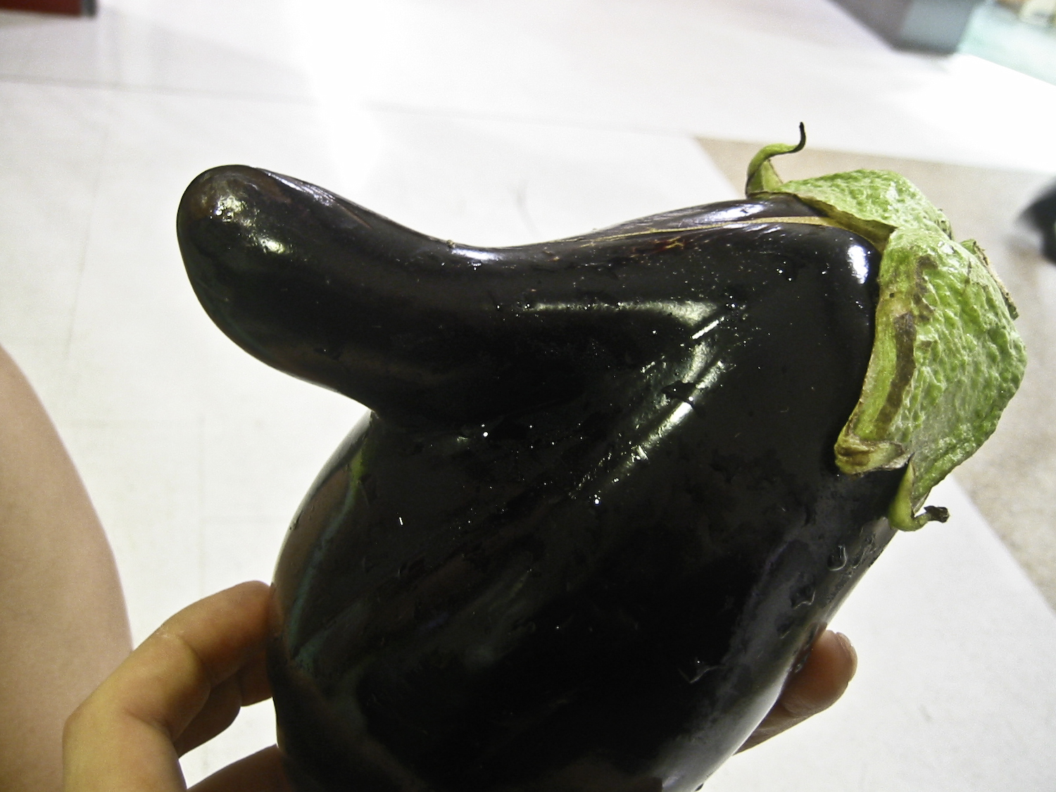 A deformed eggplant